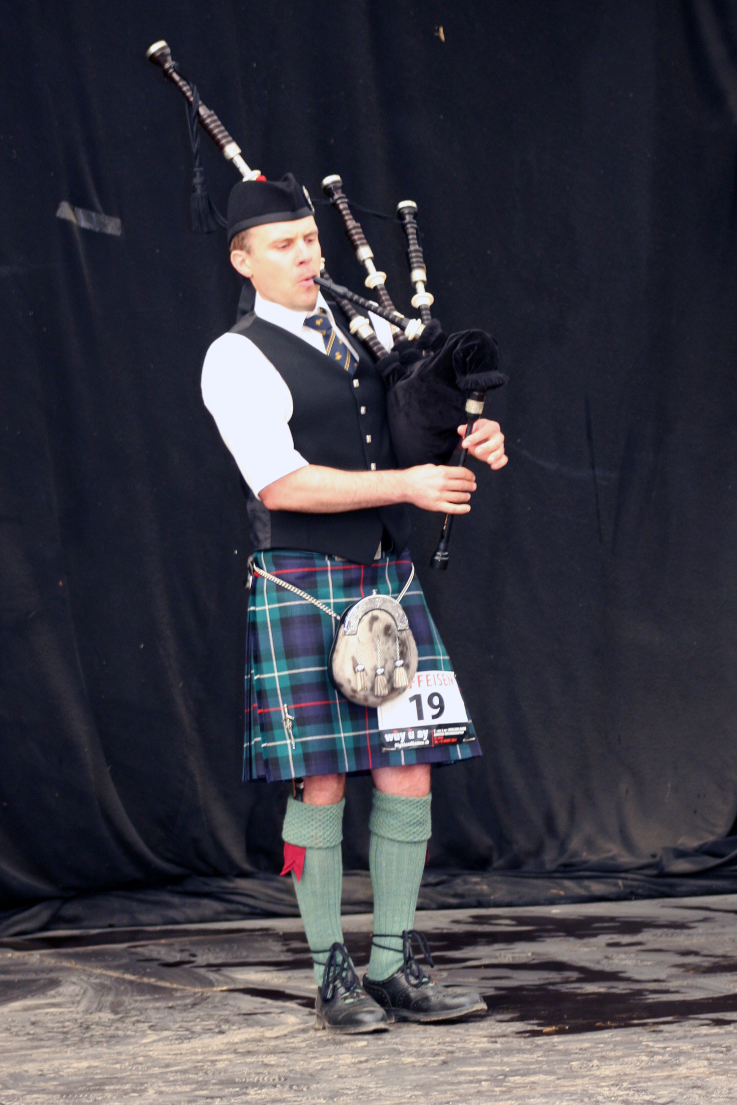 «wùy ù ay» Highland Games Swiss Championships - Solo Piping Competition